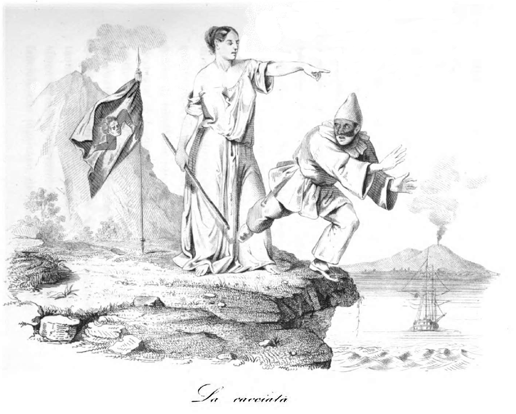 Satiric allegoric print showing Sicily rejecting Neapolitan government at begin of 1847-1848 rebellion